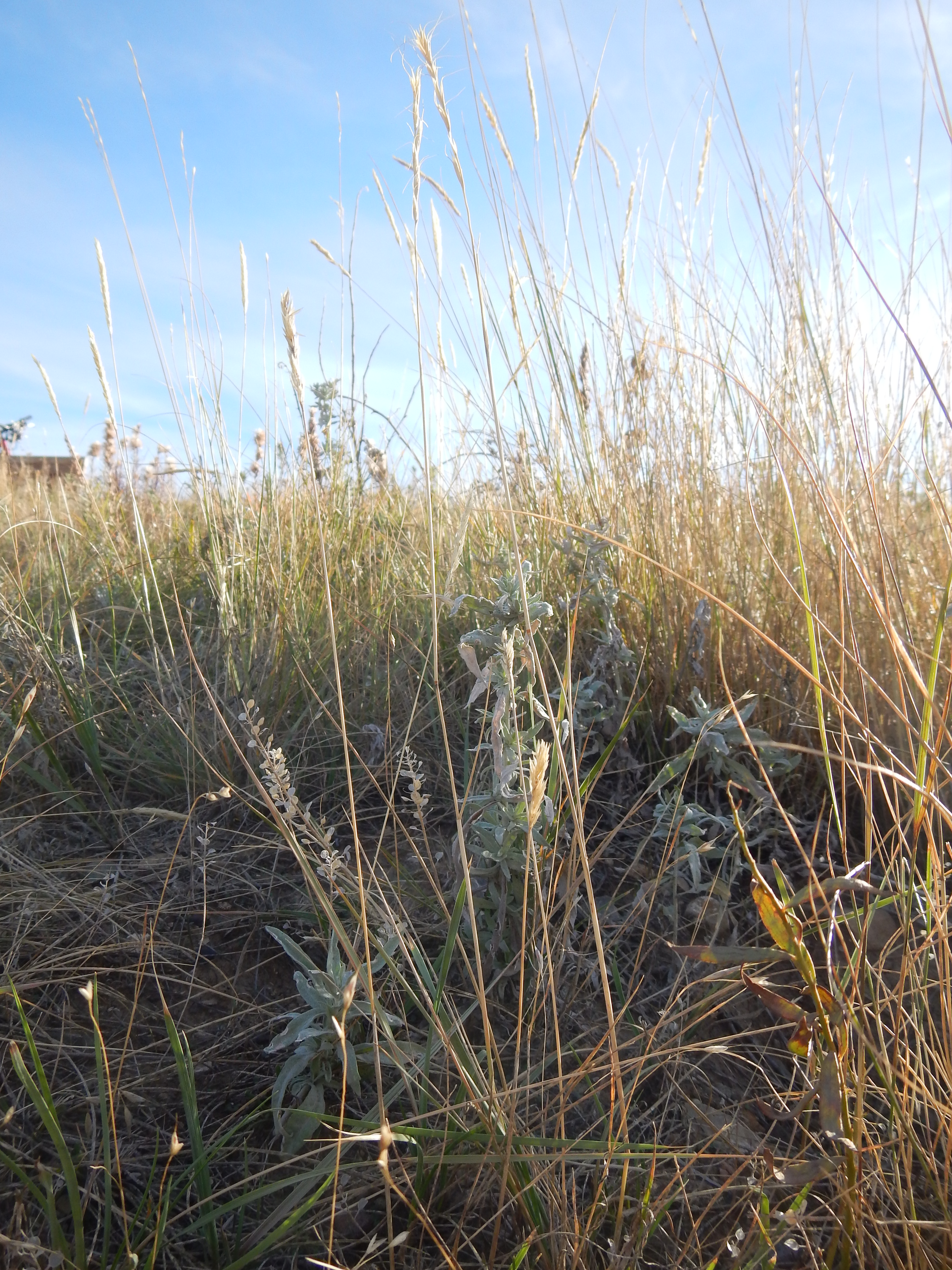 Agropyron albicans, Montana wheatgrass, has been long-persistent on the Burke Park ridge in east Bozeman, where its two progenitor species are common, Agropyron spicatum (bluebunch wheatgrass) and Agropyron dasystachyum (thickspike wheatgrass). Agropyron albicans (foreground) has the very loosely bunched rhizomatous habit, persistent florets and glume-length internodes of Agropyron dasystachyum but the long curved lemma awns and relatively glabrous lemmas of Agropyron spicatum (background). Koeleria macrantha (prairie junegrass) is another common bunchgrass in this scene).